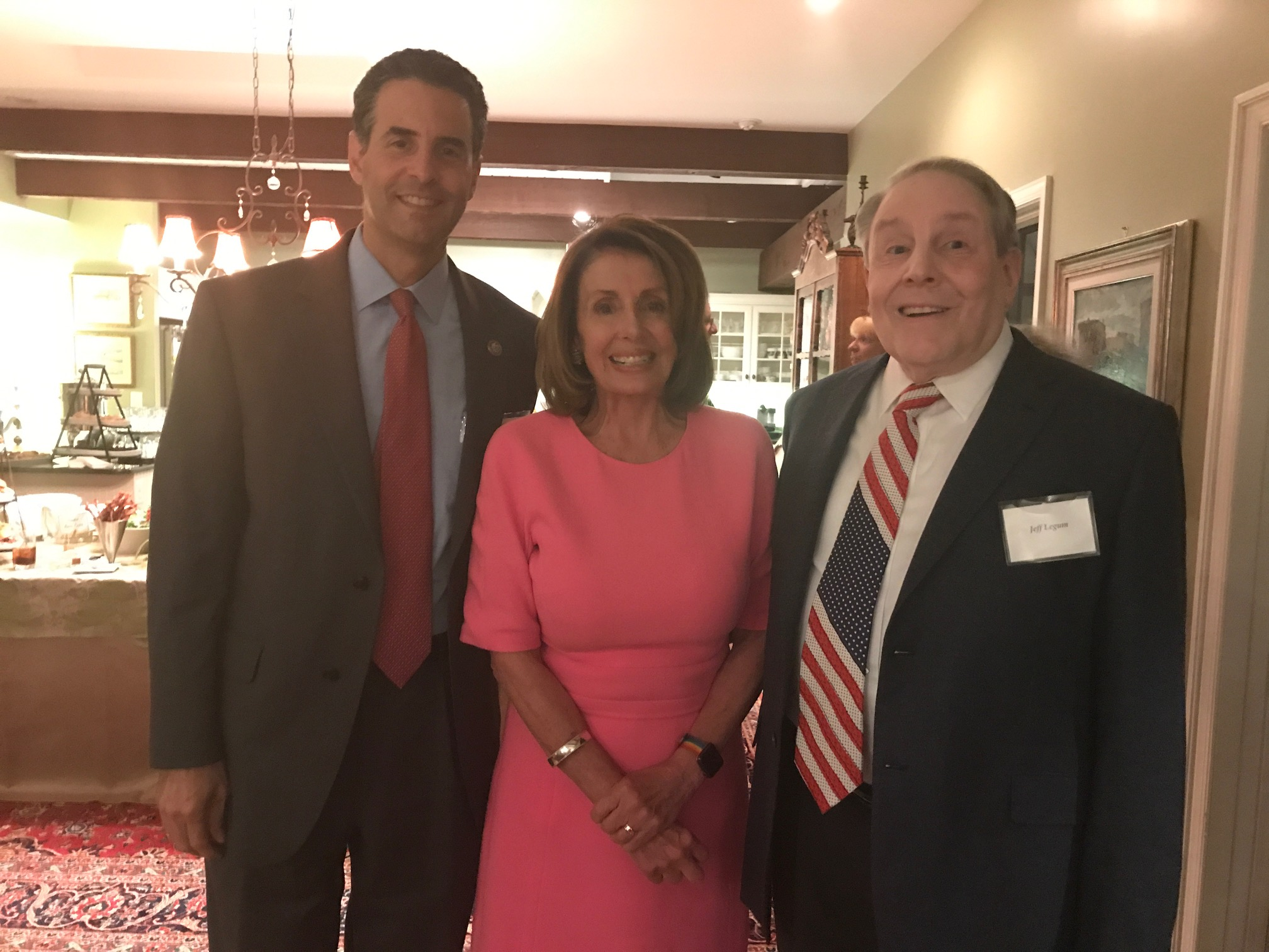 Congress members John Sarbanes and Nancy Pelosi with Jeffrey A. Legum